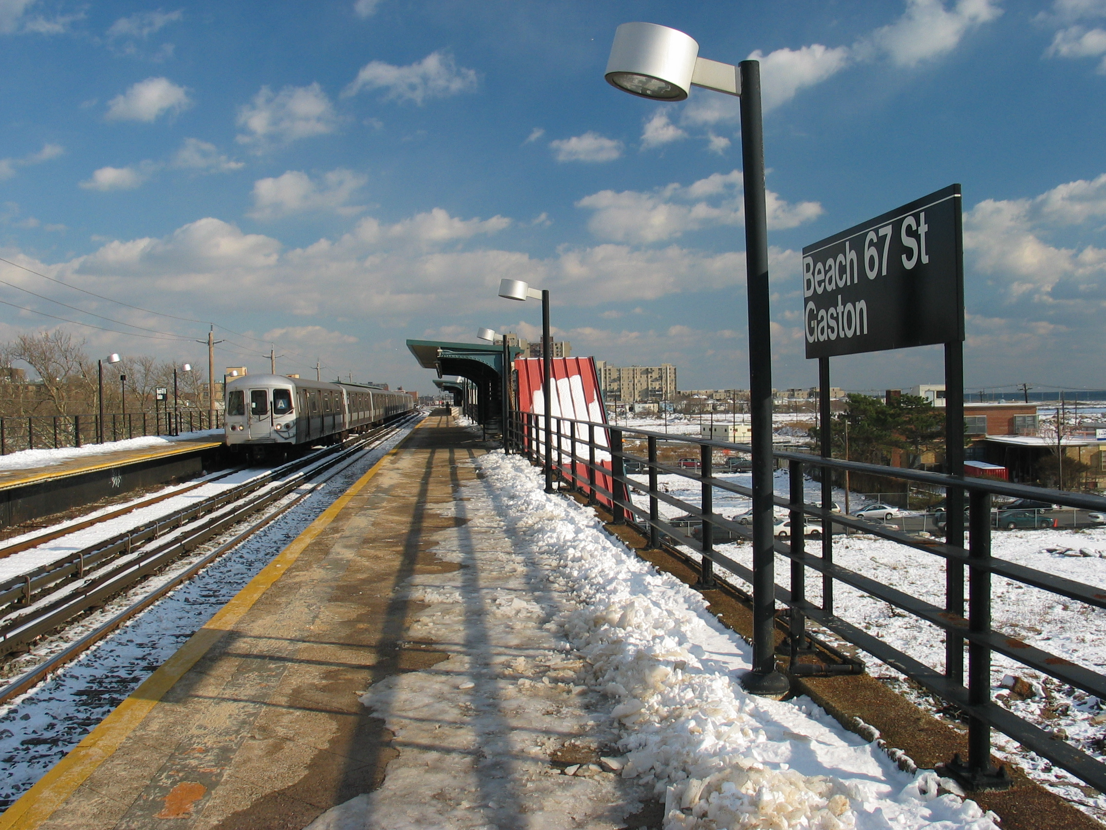 A train entering Beach 67th Street and Gaston station on Rockaway beach. Atlantic ocean in the background.